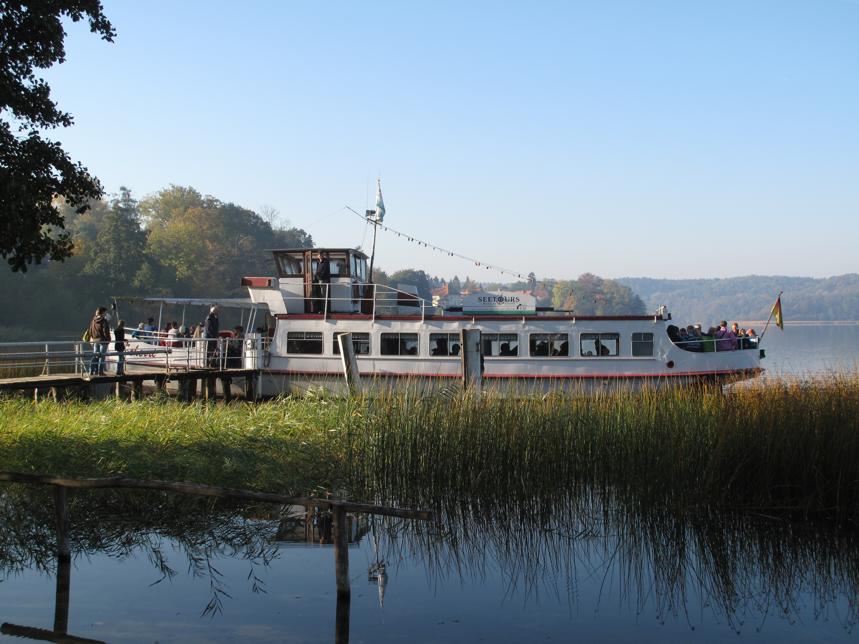 Landing stage at the eastern shore of the Schermützelsee. The passenger ship „MS Scherri“ was built in 1879 by the Reiherstiegwerft in Hamburg. First named „Reiher“ the ship started up on the Alster. On the Schermützelsee it is in operation since 1992. The Schermützelsee is a lake in Buckow, District Märkisch-Oderland, Brandenburg, Germany. The lake covers 137 hectare and is the largest water in the hill country „Märkische Schweiz“ and in the Märkische Schweiz Nature Park.